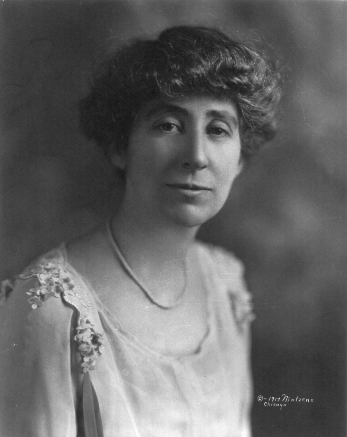 Jeannette Rankin, U.S. Congresswoman from Montana